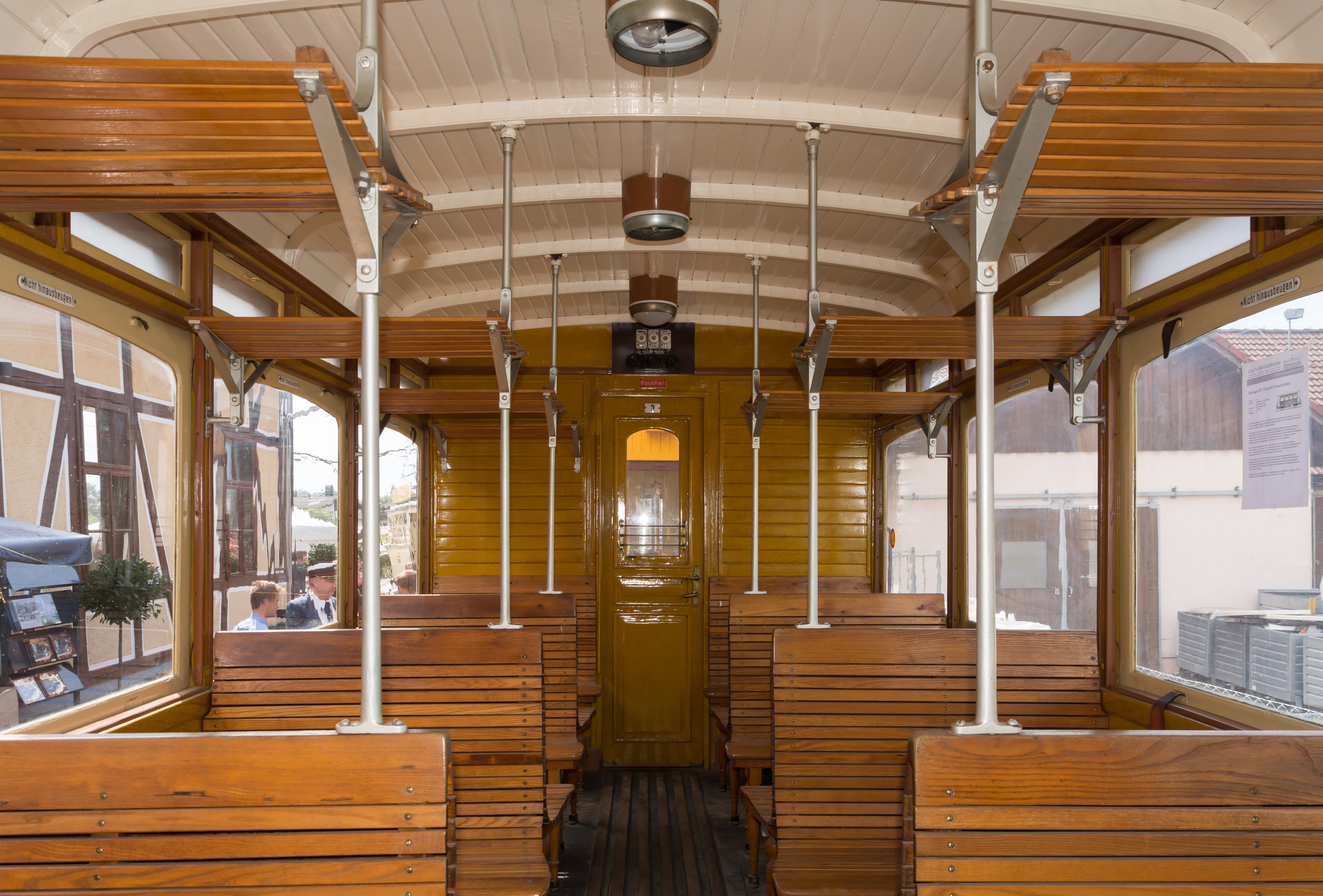 The coach EP3 of Florianerbahn was built in 1913 by the company "Grazer Waggonfabrik". In this coach smoking was allowed (Raucher).